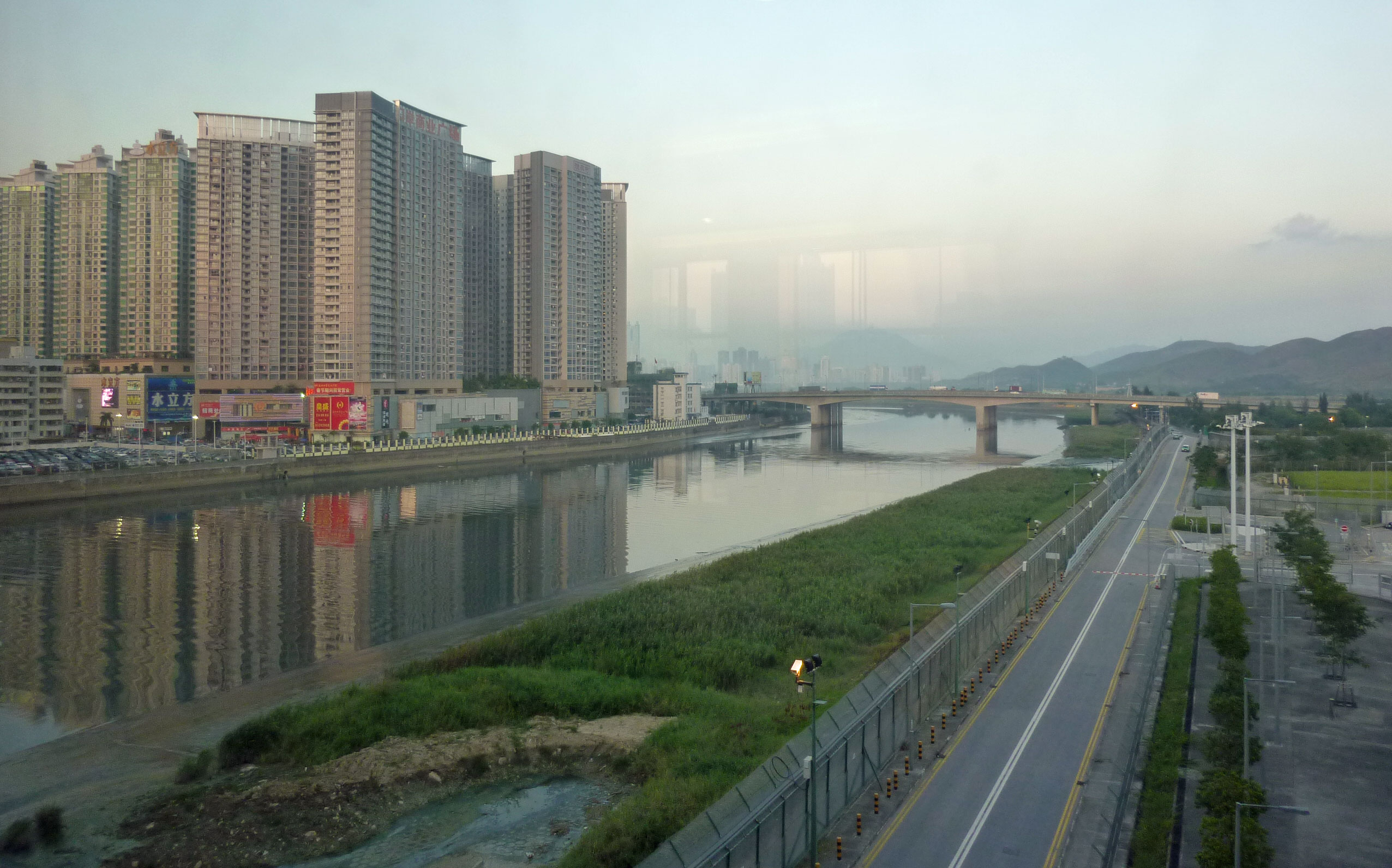 Shenzhen River and the Lok Ma Chau road border crossing from the Lok Ma Chau Station-Futian border crossing bridge (sorry about glare): Shenzhen on the left, Hong Kong's New Territories on the right